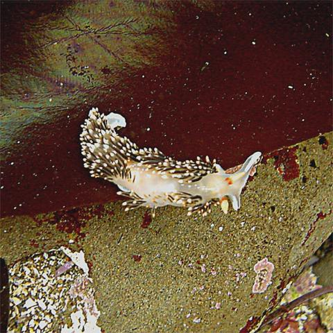 Nudibranch, Phidiana hiltoni in California tide pools